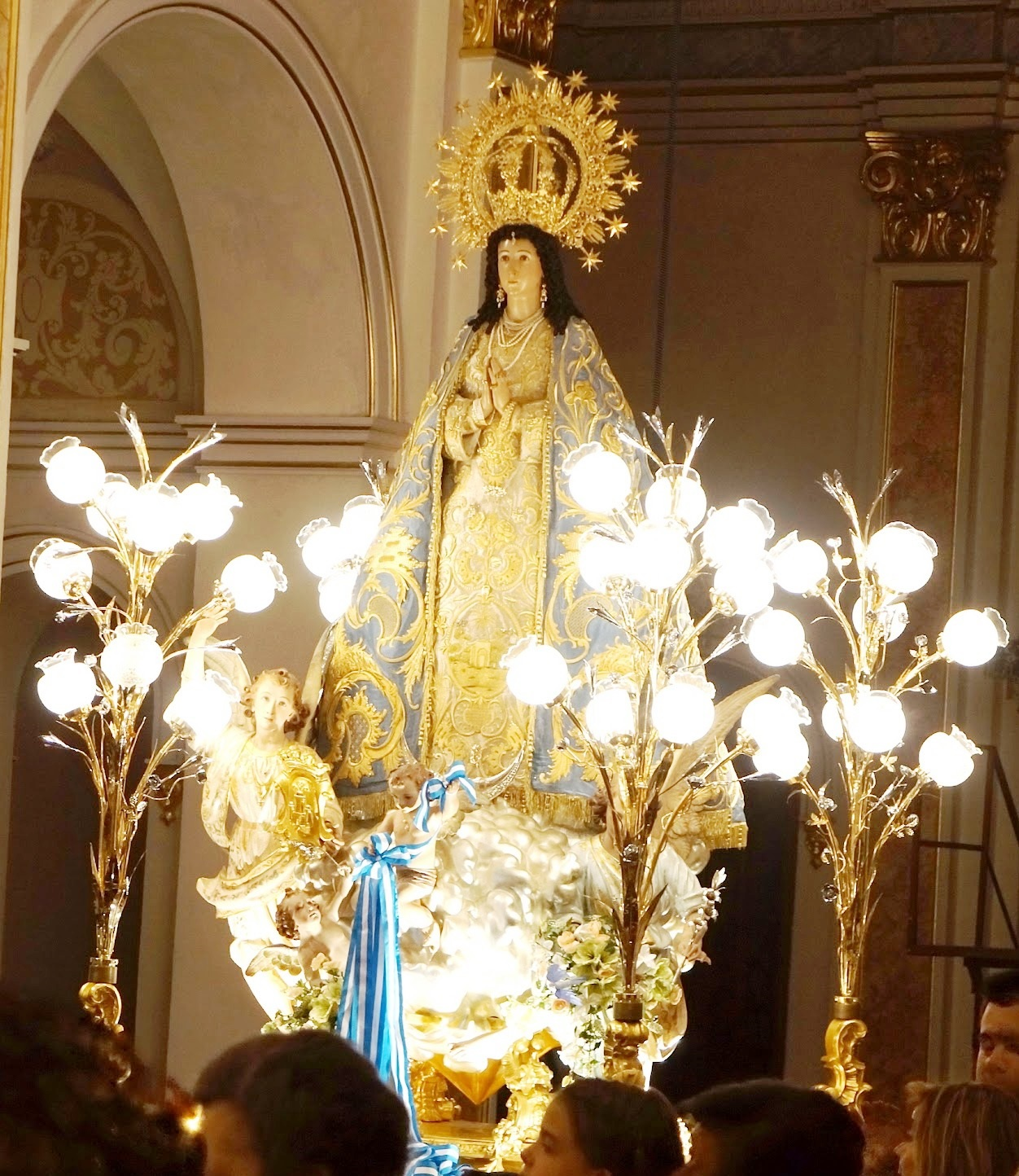 Virgin Mary, Liria, Valencia, Spain